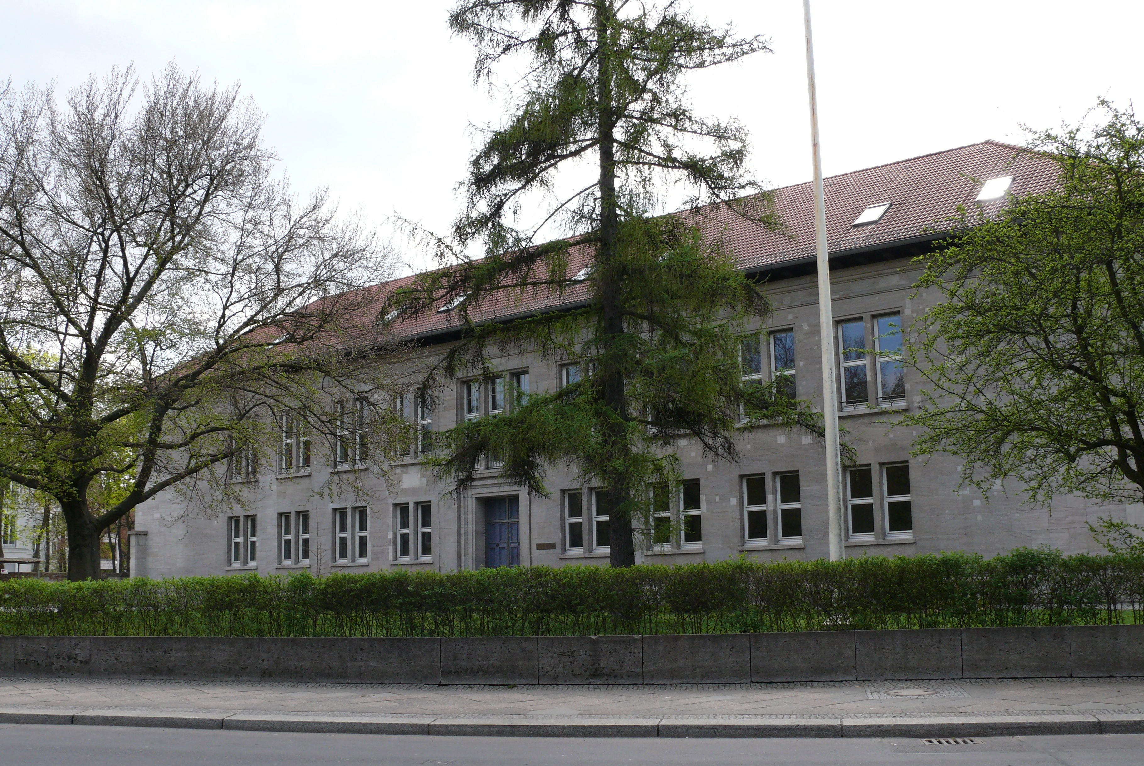 Berlin-Tiergarten Canisius Kolleg at Tiergartenstraße